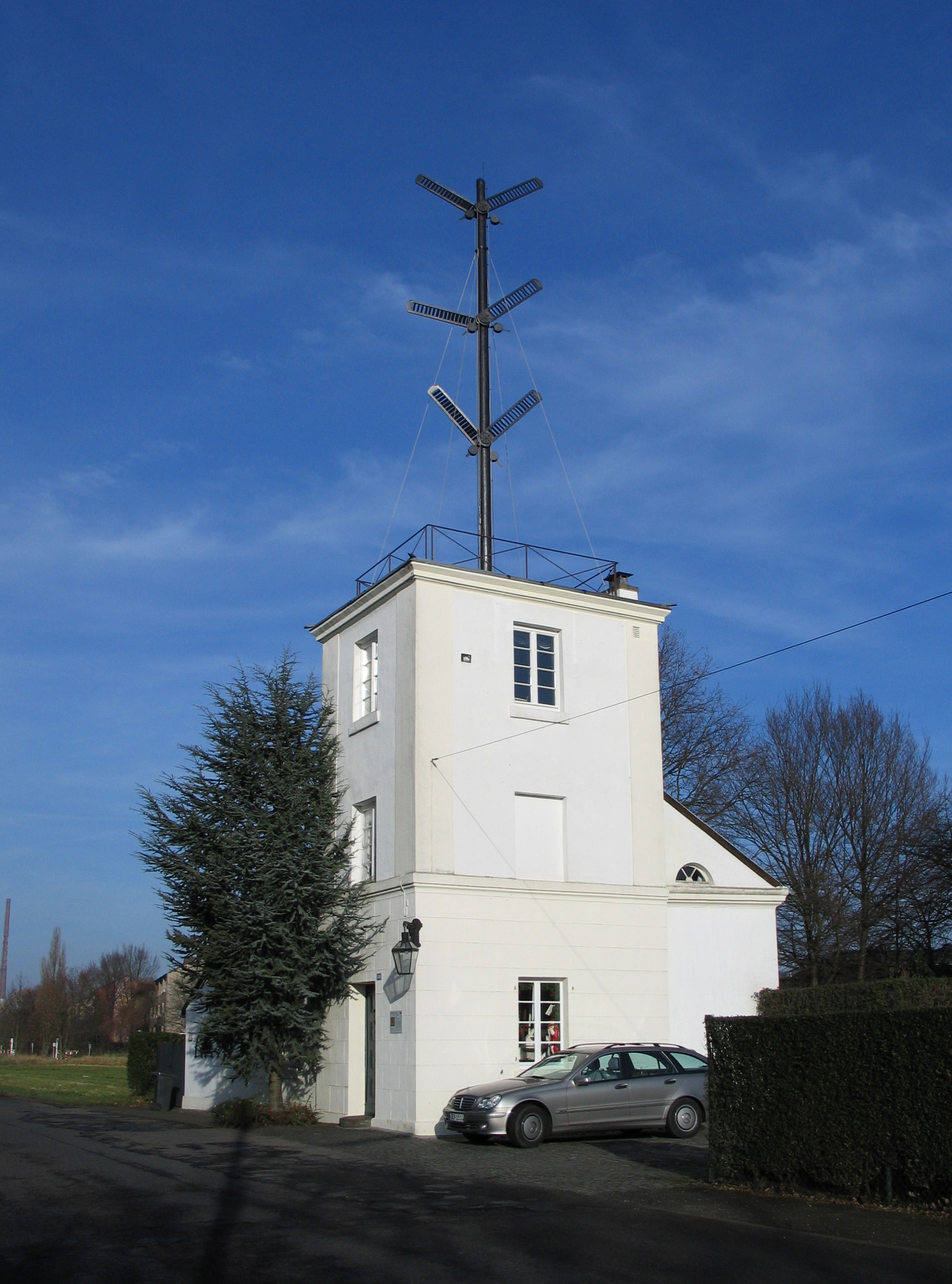 Prusian Optical Telegraph No 50 in Flittard, Cologne, Germany